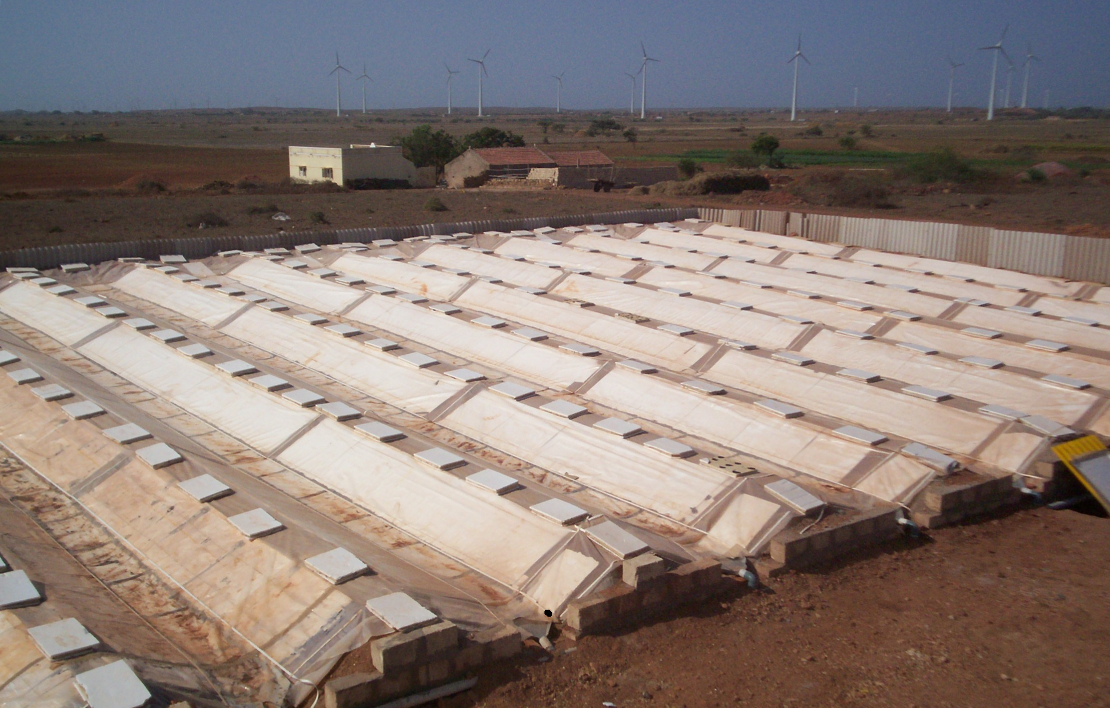 This is an example of condenser-on-ground, condenser made of plastic film with special properties, insulation layer between film and bare ground. This installation admeasures 600 m2 surface area and is owned and operated by a school for provision of potable water. In the area of north-west India where it is installed dew occurs for 8 months a year, and the installation collects about 15 mm of dew water over the season with nearly 100 dew-nights.